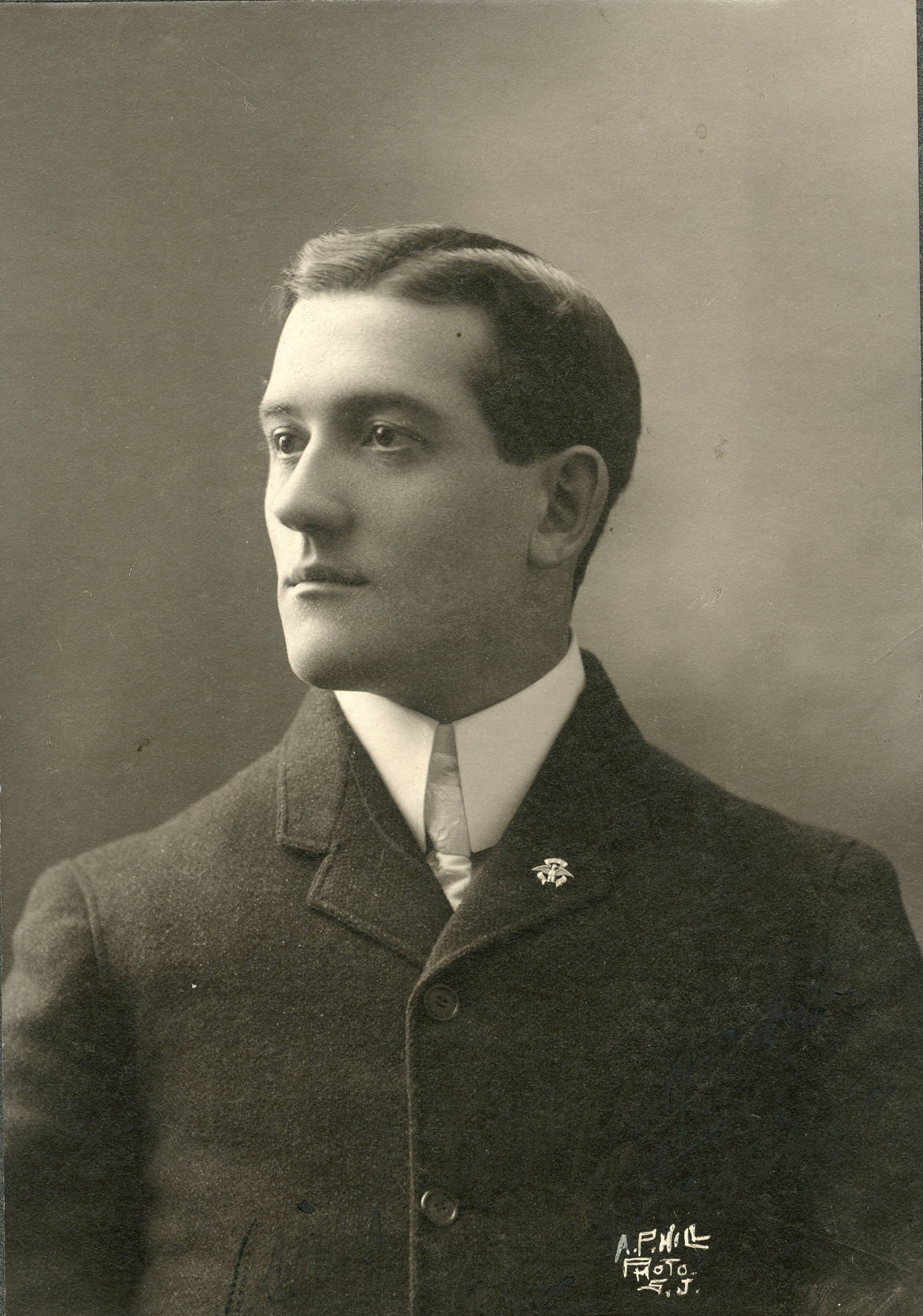 Hayden Stevenson, stock actor Subjects: actors